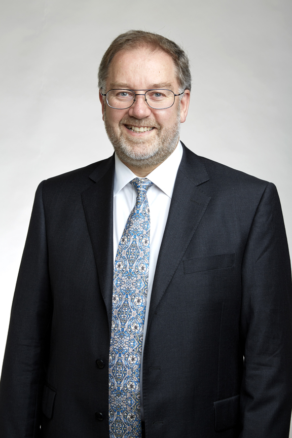 Robin William Grimes is chief scientific adviser in the Ministry of Defense for nuclear science and technology and professor of materials physics at Imperial College London. From February 2013 to August 2018 he served as chief scientific adviser to the Foreign and Commonwealth Office Attribution: The Royal Society